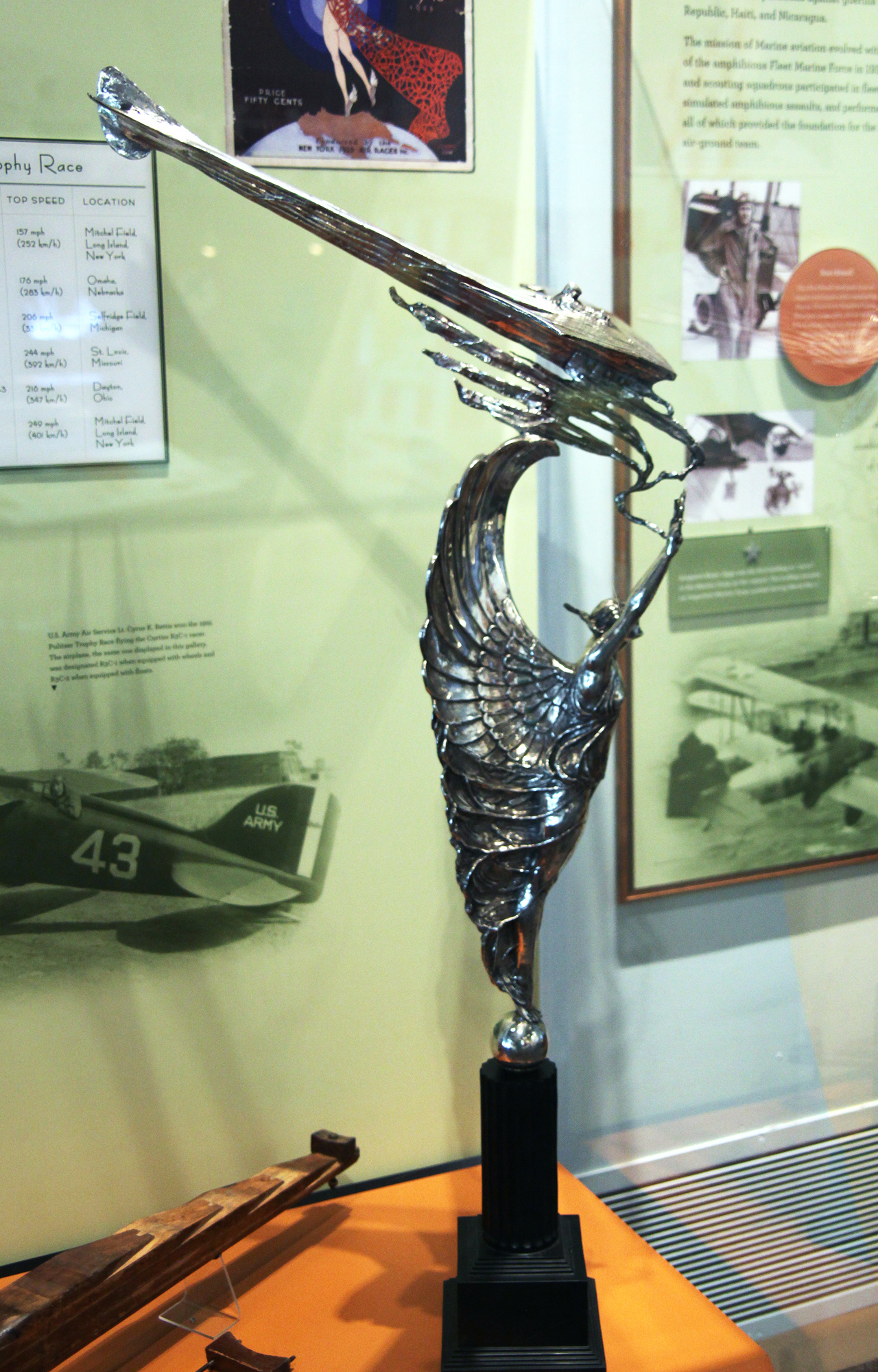 Side view of the Pulitzer Trophy, on display at the Smithsonian Air and Space Museum in Washington, D.C. The National Air Races were a series of closed-course and cross-country races that took place in the United States from 1920 to 1949. Newspaper publisher Ralph Pulitzer sponsored the races in 1919 as a prize for military airplanes. The trophy itself was designed by Mario Korbel. It is made in 1919 of silver, and stands four feet high. It cost $5,000. The trophy is an Art Deco representation of a winged woman clad in flowing robes, standing on a tiny globe. Her robes transform into wings which are swept back and up. She holds aloft a wreath of victory. Wisps of cloud hover above her, and support a streamlined, Art Deco aircraft. The wings of the plane are scored to look like feathers. The base is of cast bronze, painted black. The names of the winners of the trophy from 1920 to 1925 are inscribed on the base. The trophy was cast by Roman Bronze Works, Inc. of New York City.